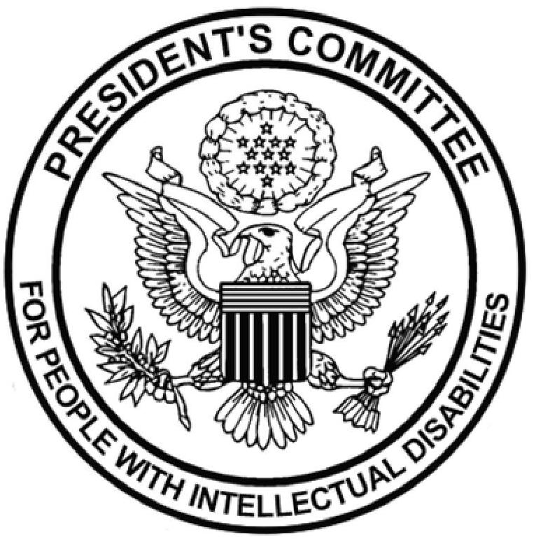 2016 Report from the President's Committee for People with Intellectual Disabilities